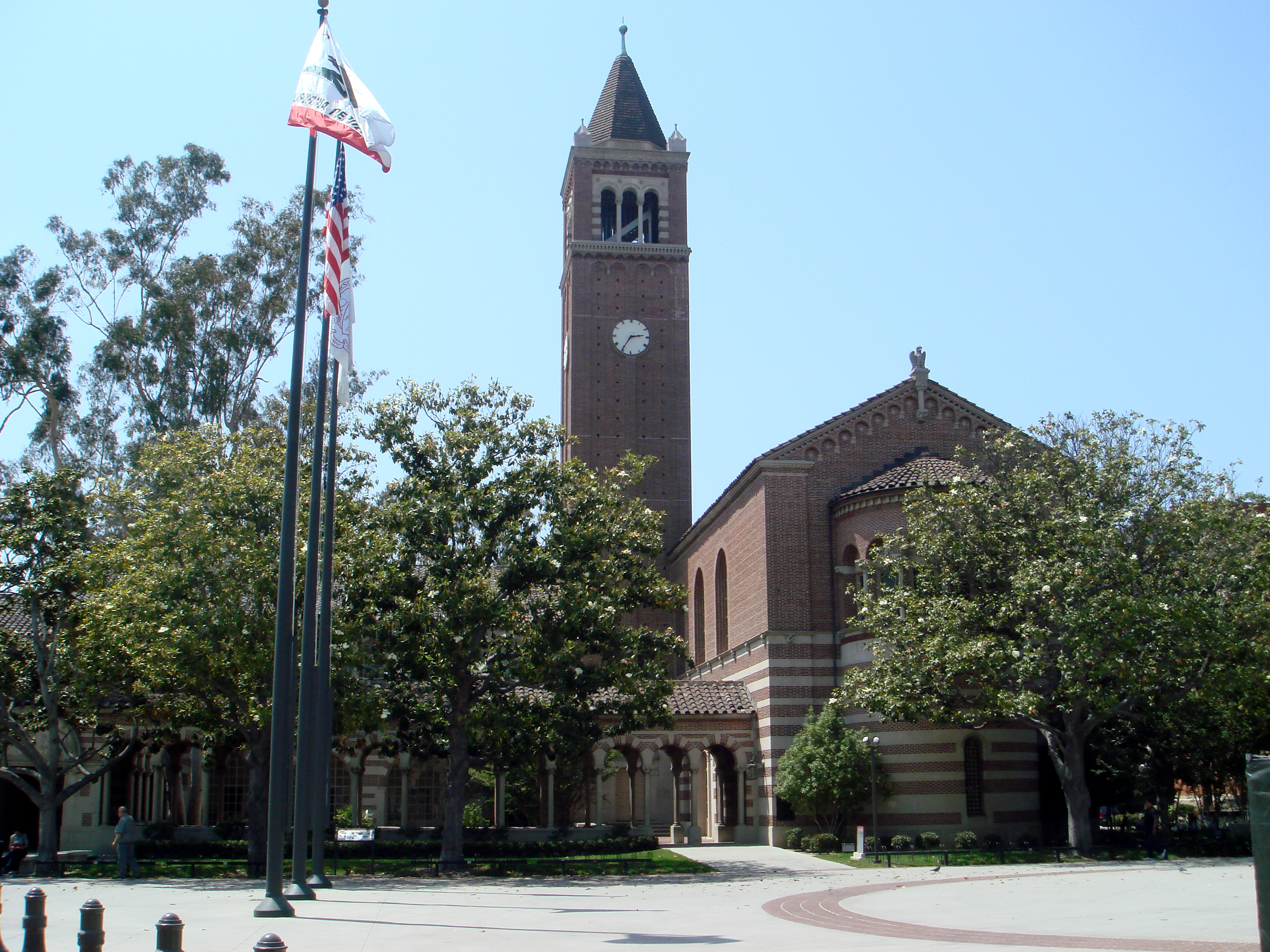 The Seely Wintersmith Mudd Hall of Philosophy (Mudd Hall of Philosophy), and clock tower, at the University of Southern California in Los Angeles, California.